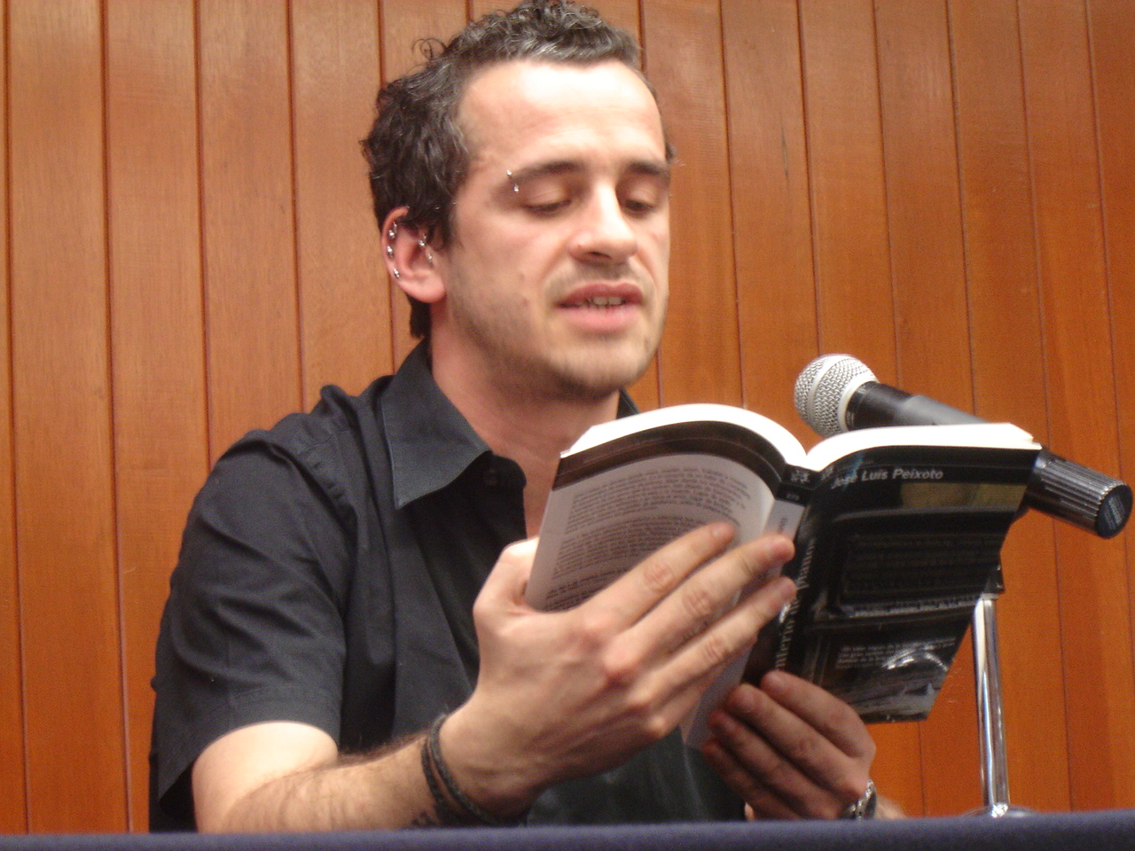 Photo of J.L Peixoto in the UNAM, in Mexico City